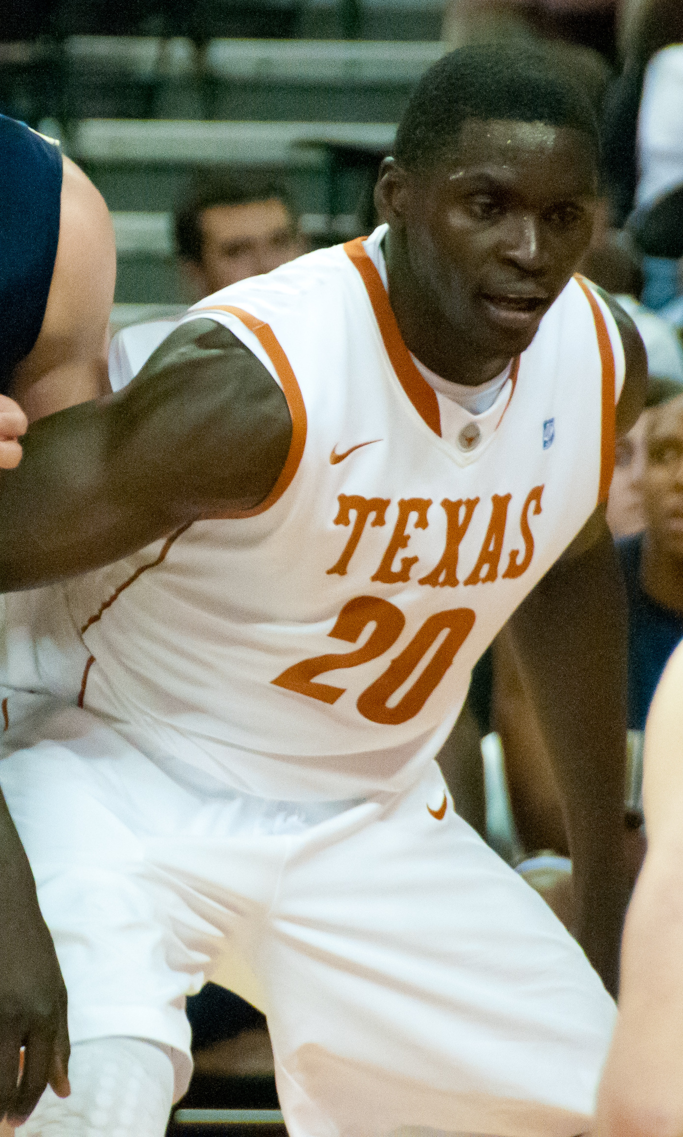 Alexis Wangmene, a Cameroonian basketball player for the University of Texas Longhorns. Texas Longhorns vs Navy Midshipmen, Coaches vs Cancer Classic, November 8, 2010, Frank Erwin Center, Austin, Texas